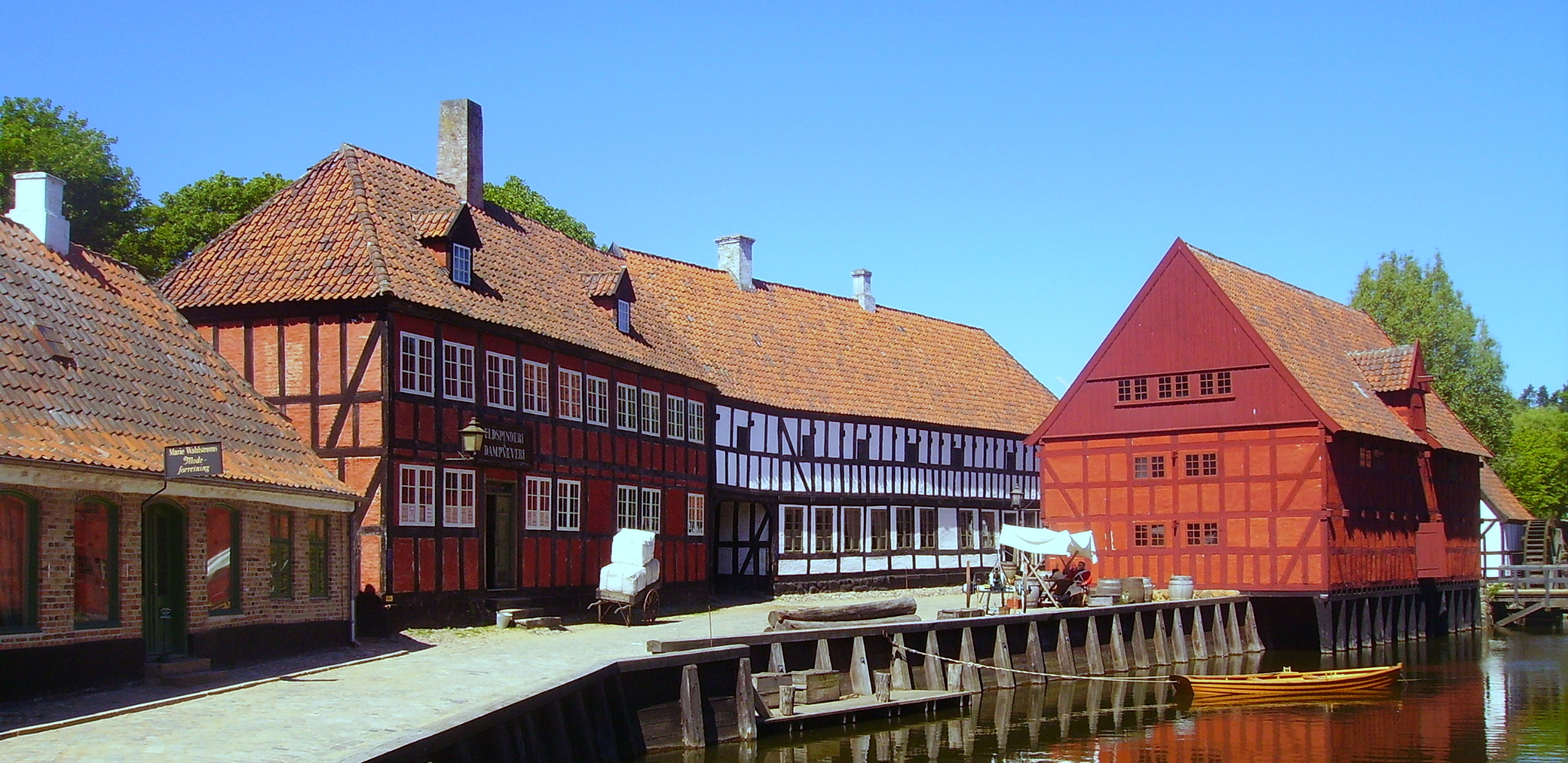 Den Galme By, Aarhus